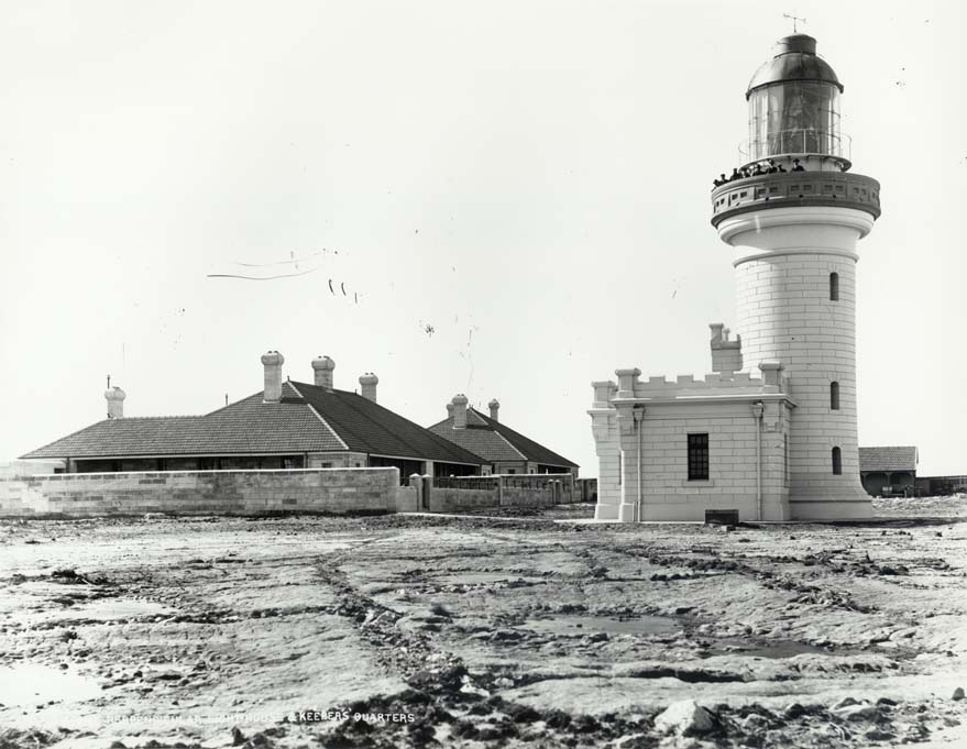 Point Perpendicular Lighthouse and Keeper's quarters, Jervis Bay Digital ID: 4481_a026_000563 Rights: We'd love to hear from you if you use our photos. Many other photos in our collection are available to view and browse on our website using Photo Investigator.